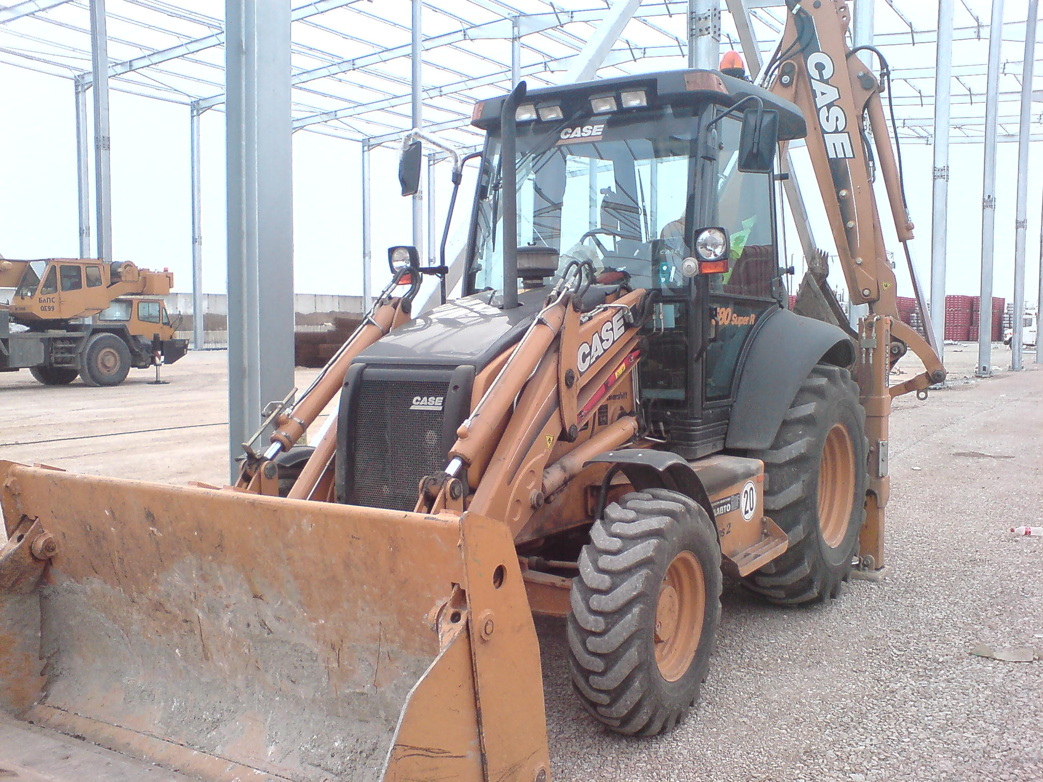 Tractor CASE 580